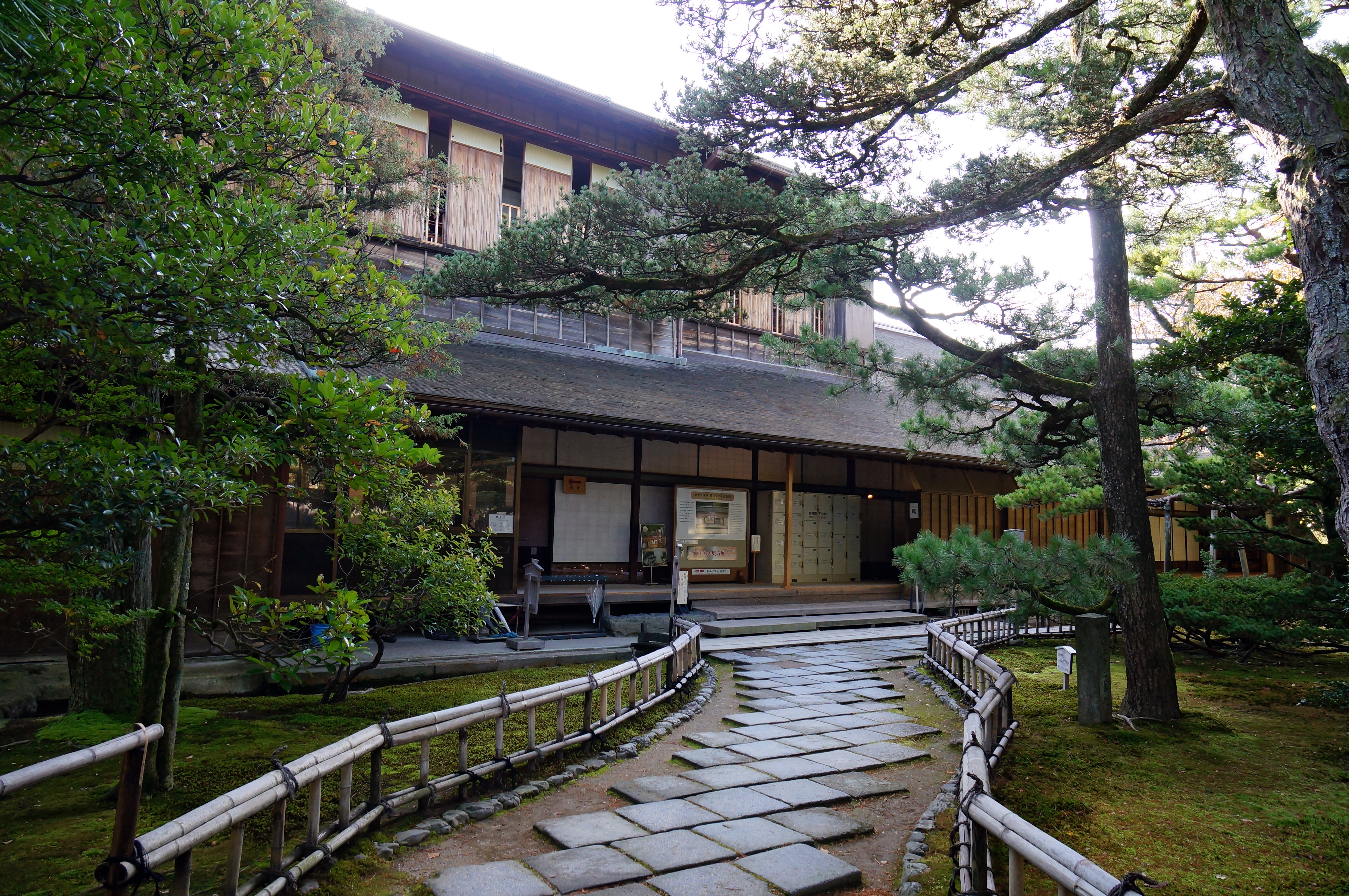 At Seisonkaku in Kanazawa, Ishikawa prefecture, Japan.